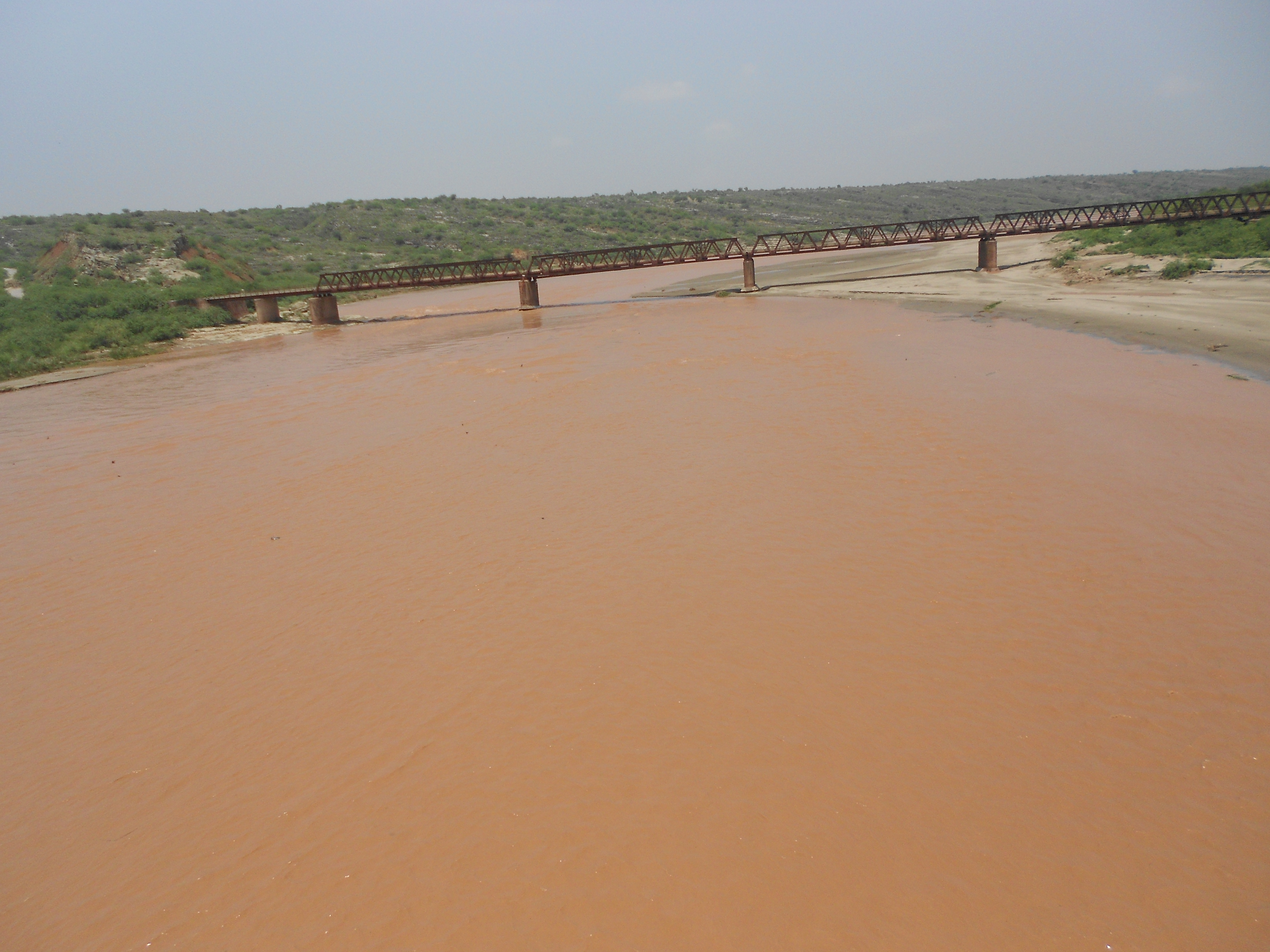 Soan River، in talagang Bridge